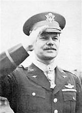 General (then Colonel) Leon W. Johnson receiving his Medal of Honor.